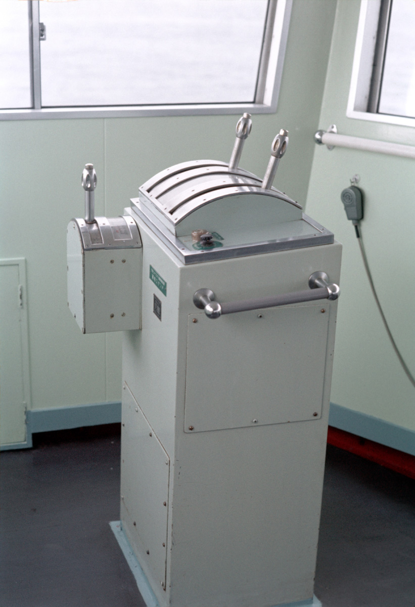 MS TAISETSU MARU2 Auxiliary propeller control stand on the port end of the wheel house